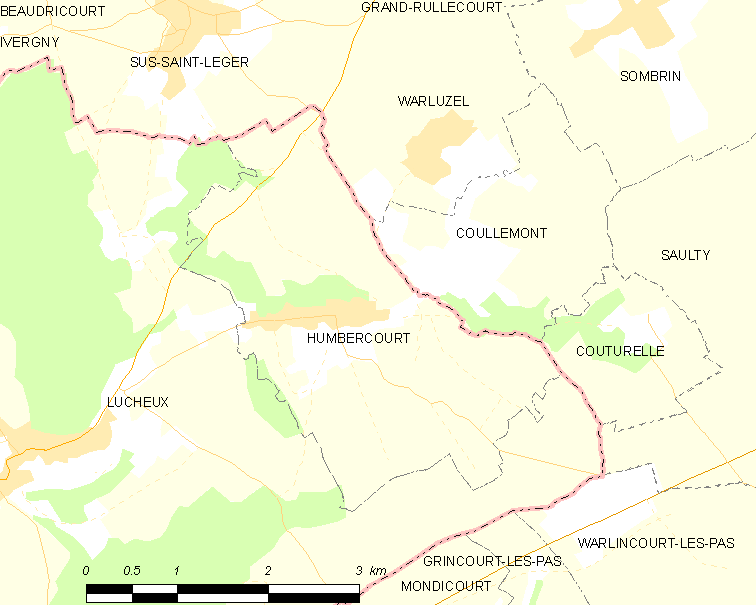 Map of French municipality Humbercourt